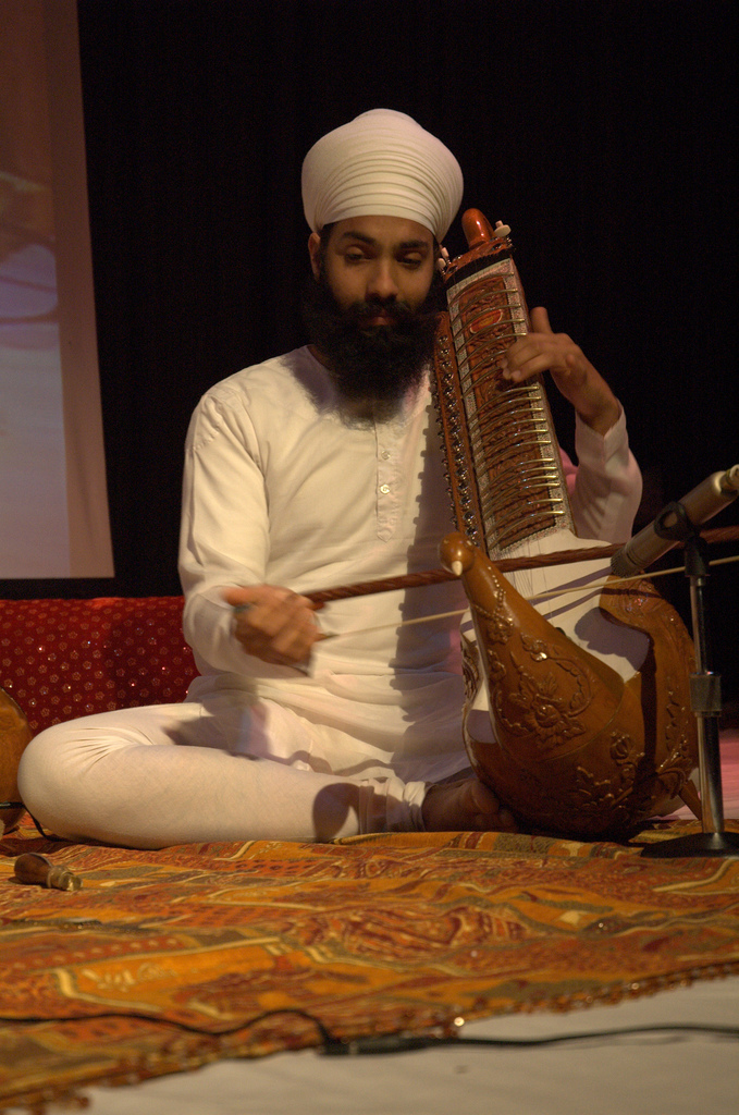 Ranbir Singh plays the taus